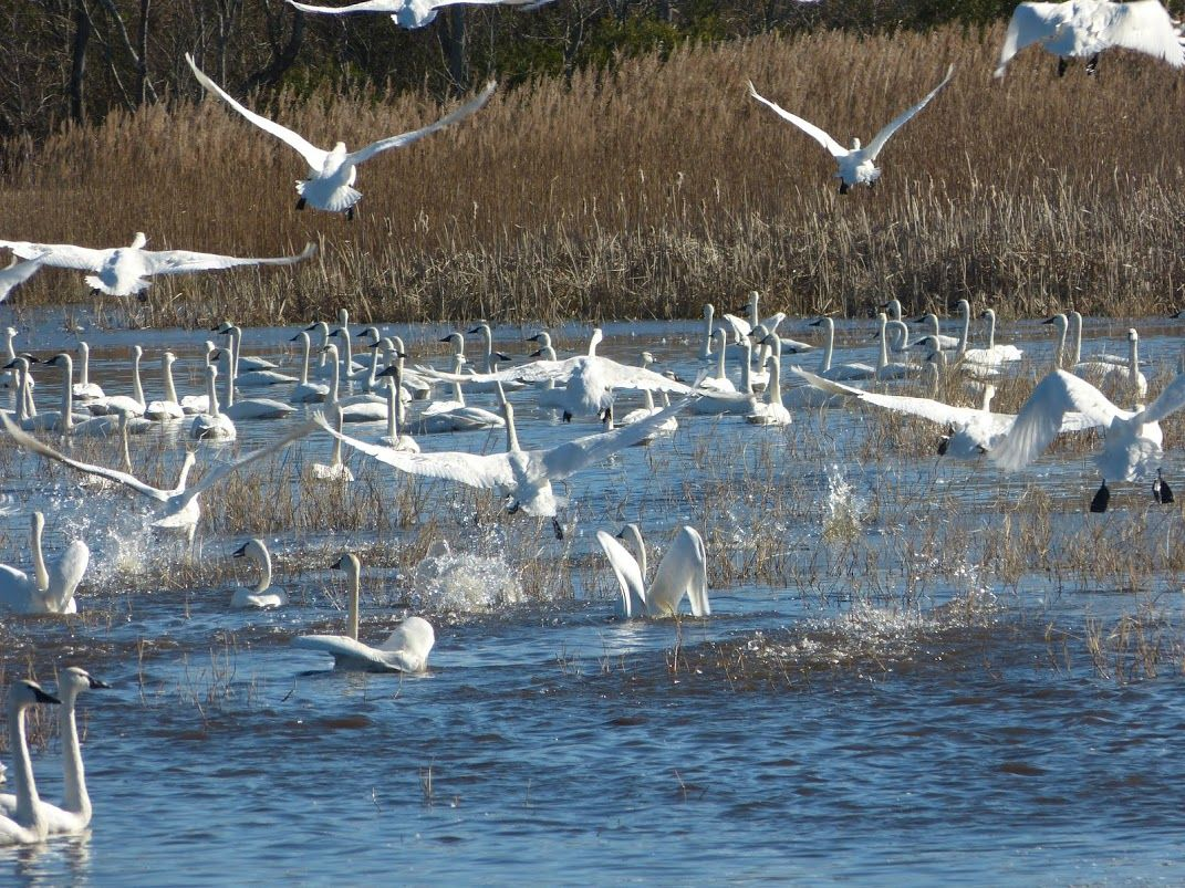 Tundra swans (Cygnus columbianus) alight at Mattamuskeet Refuge, NC, a participant in the annual fall Wings over Water Festival. Photo: Allie Stewart/USFWS